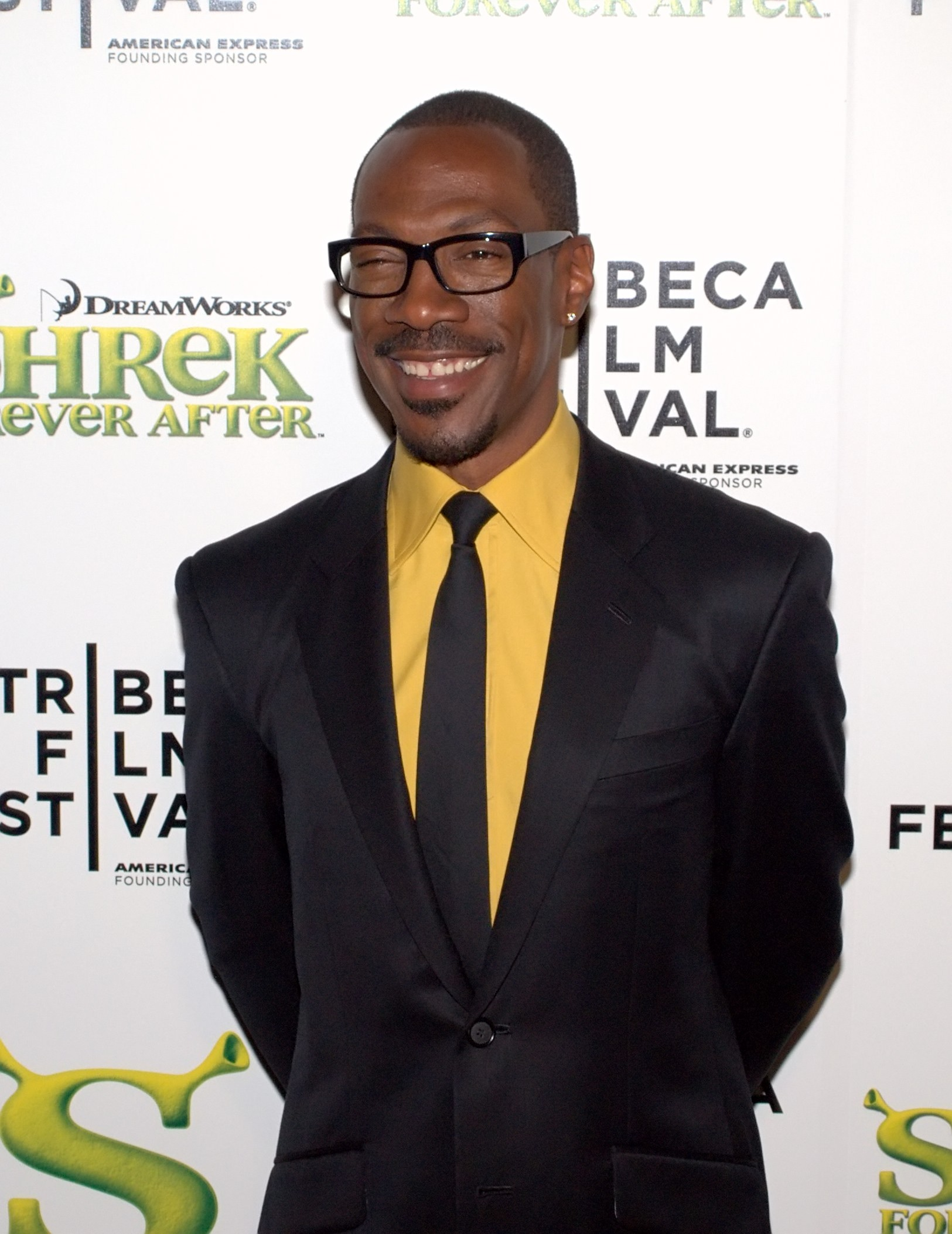 Eddie Murphy at the 2010 Tribeca Film Festival.